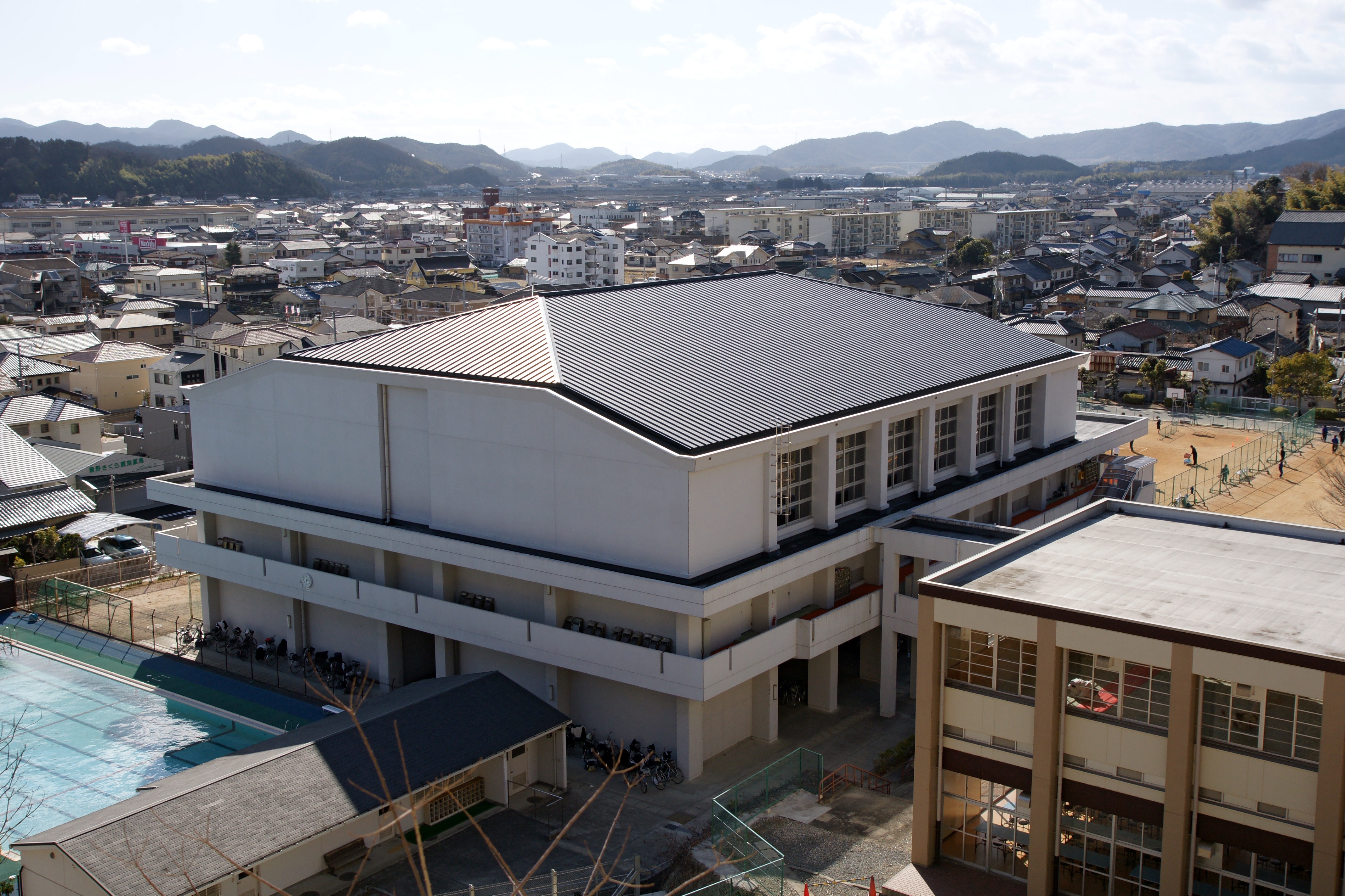 Hyogo Prefectural Tatsuno Senior High School in Tatsuno, Hyogo prefecture, Japan